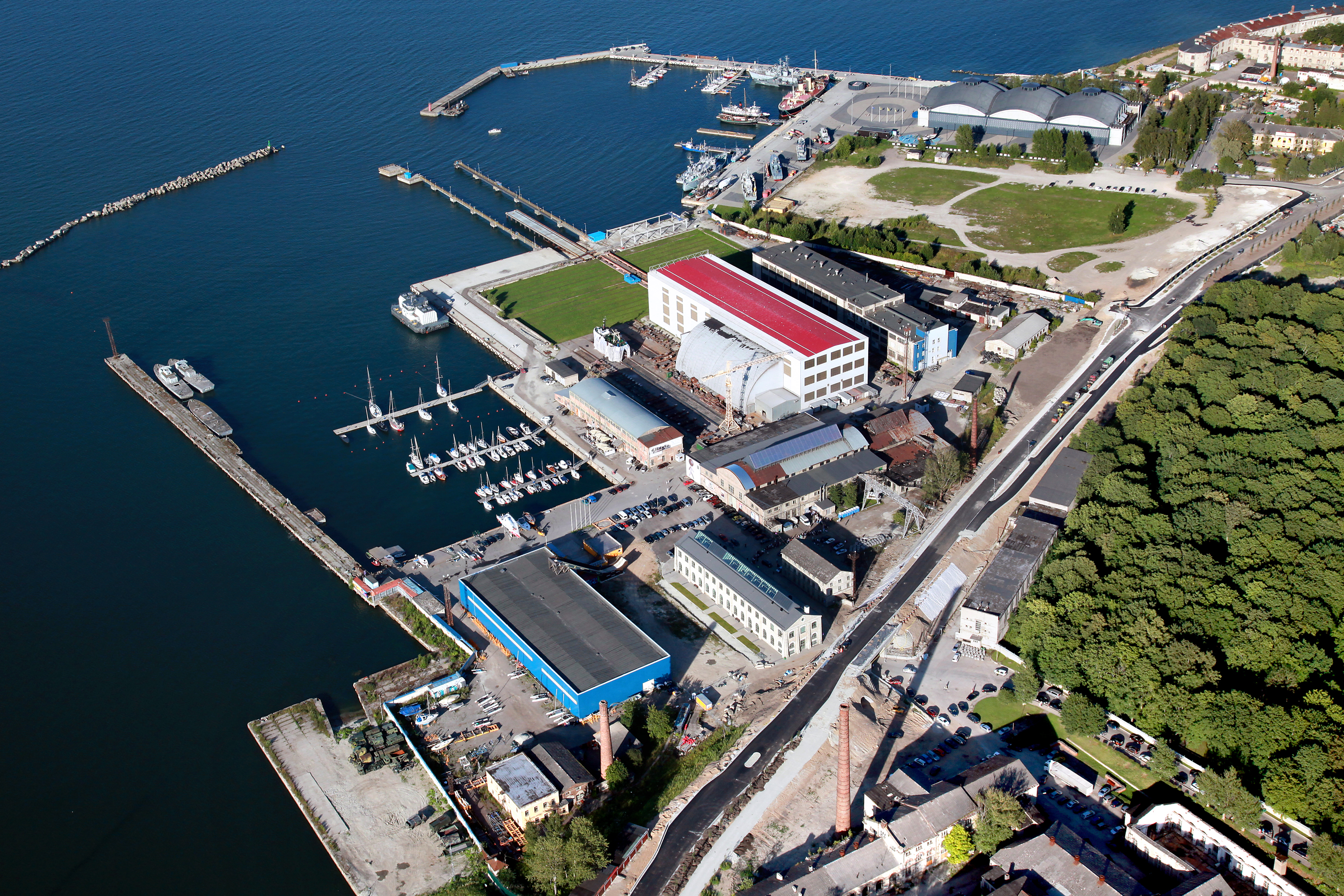 Noblessner harbour. Tallinn aeroplane harbour hangars in the upper part of the image.